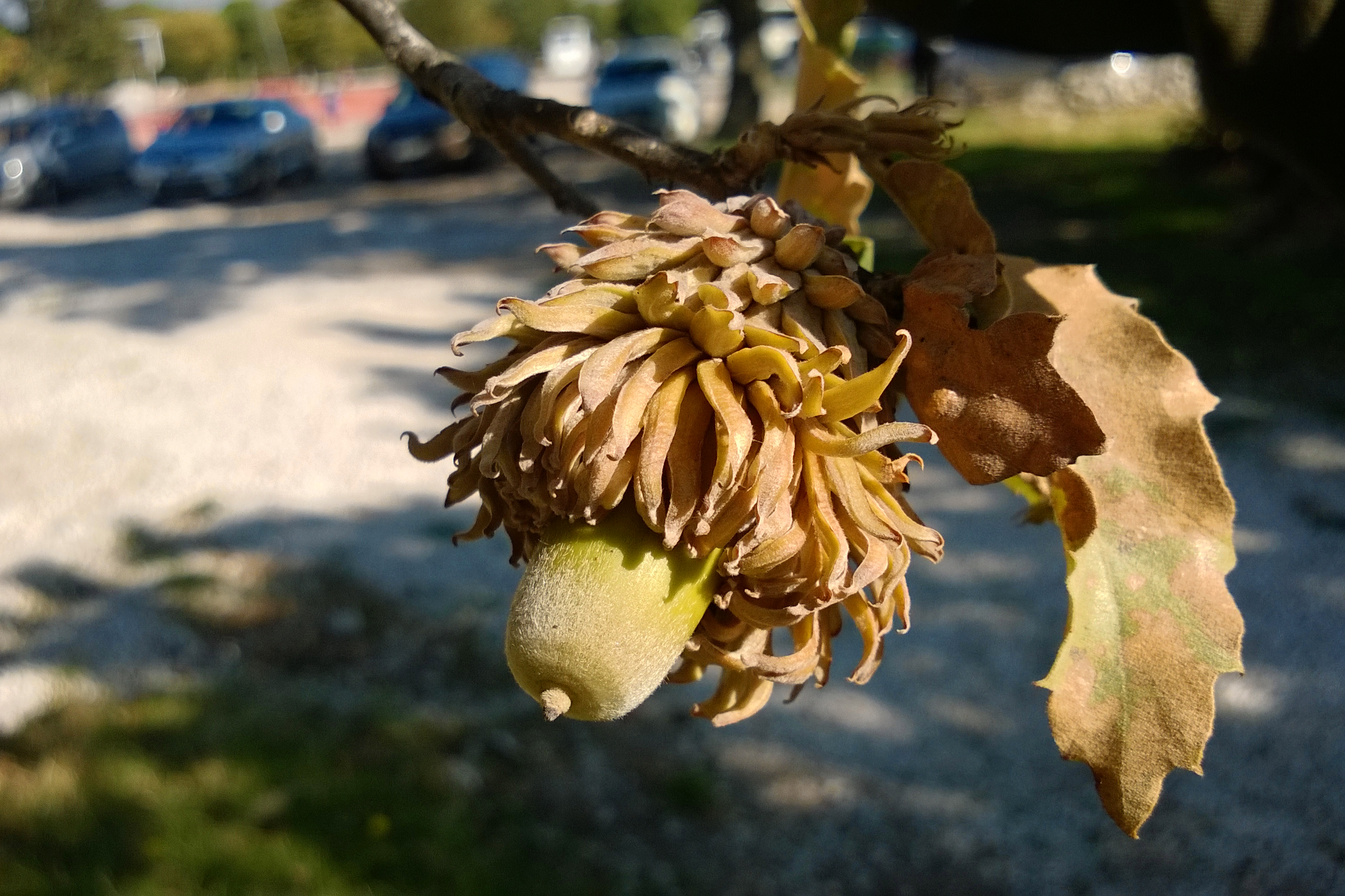 Quercus trojana tree